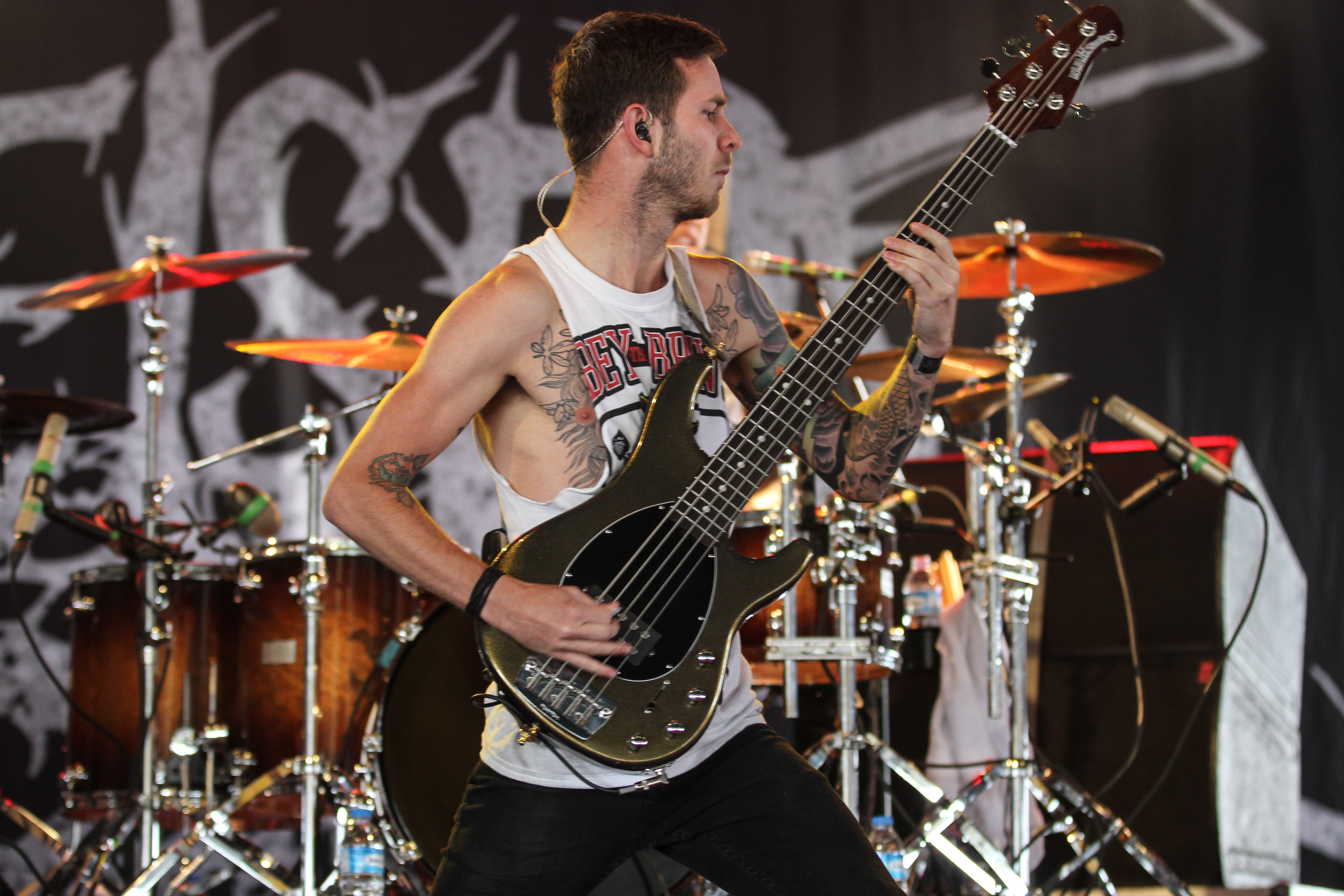 Festivalsommer This photo was created with the support of donations to Wikimedia Deutschland in the context of the CPB project "Festival Summer".